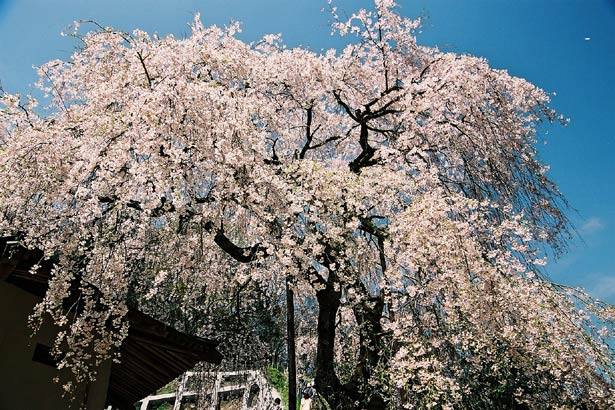 Prunus pendula at Rensho-ji in Shobara, Hiroshima, Japan